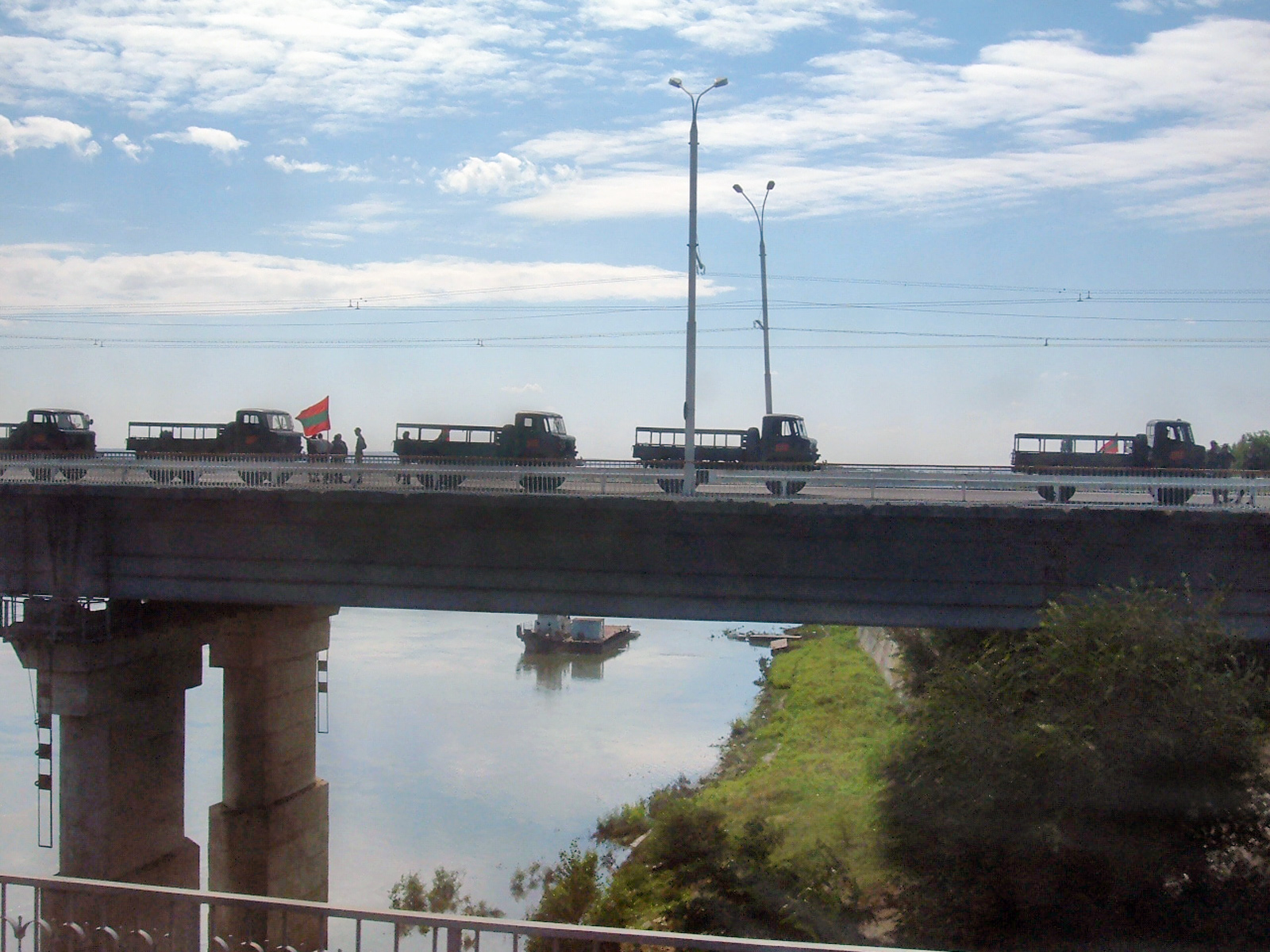 Infantry vehicles (Transnistrian forces) on the bridge between Tiraspol and Bender, Moldova (Transnistria).